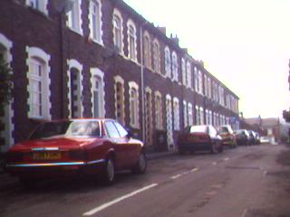 Windsor Road, the main shopping area of Griffithstown.